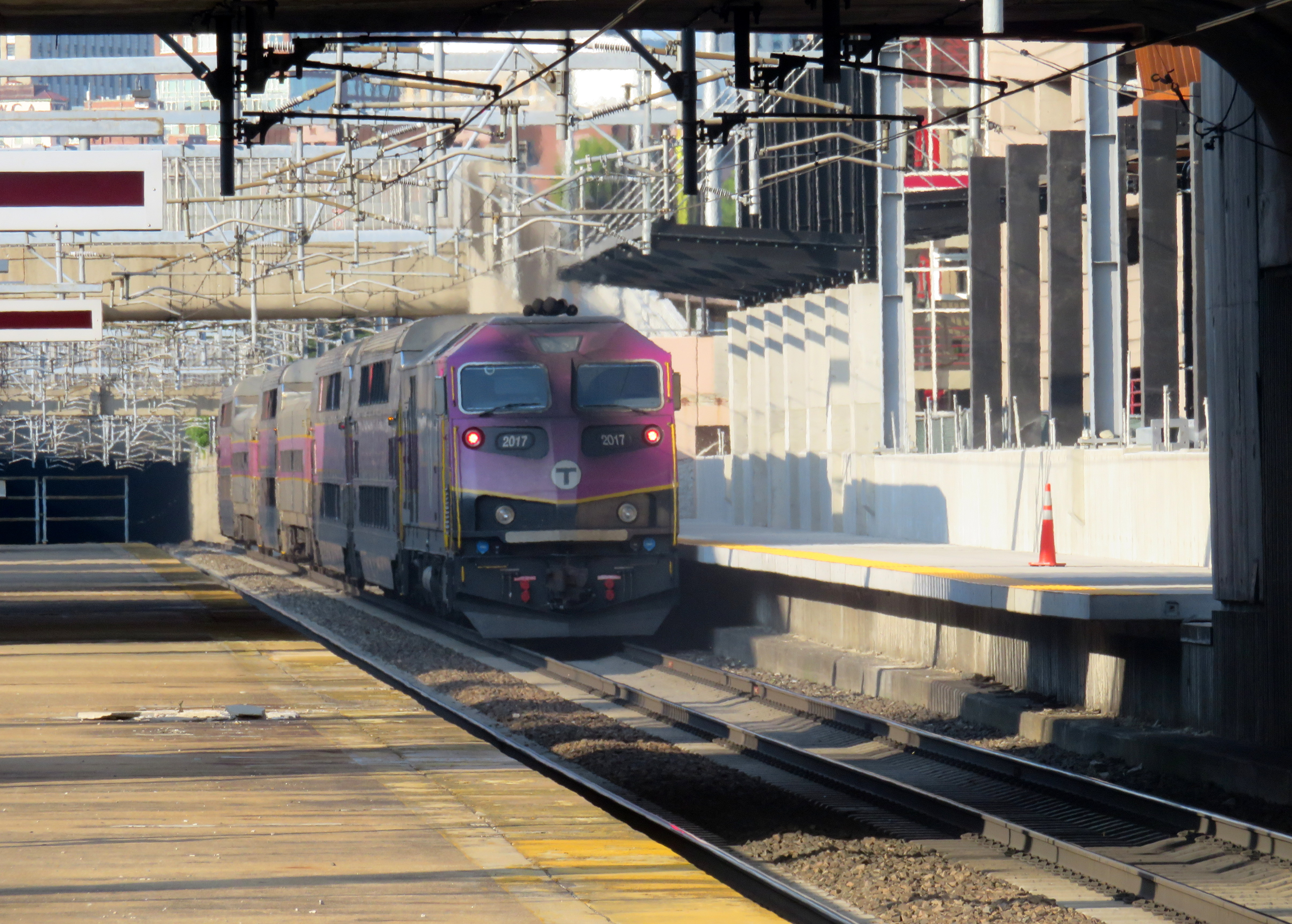 An inbound train passes the under-construction second commuter rail platform at Ruggles station in July 2019